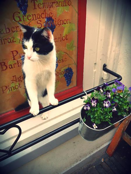 A photo of Buurtpoes Bledder